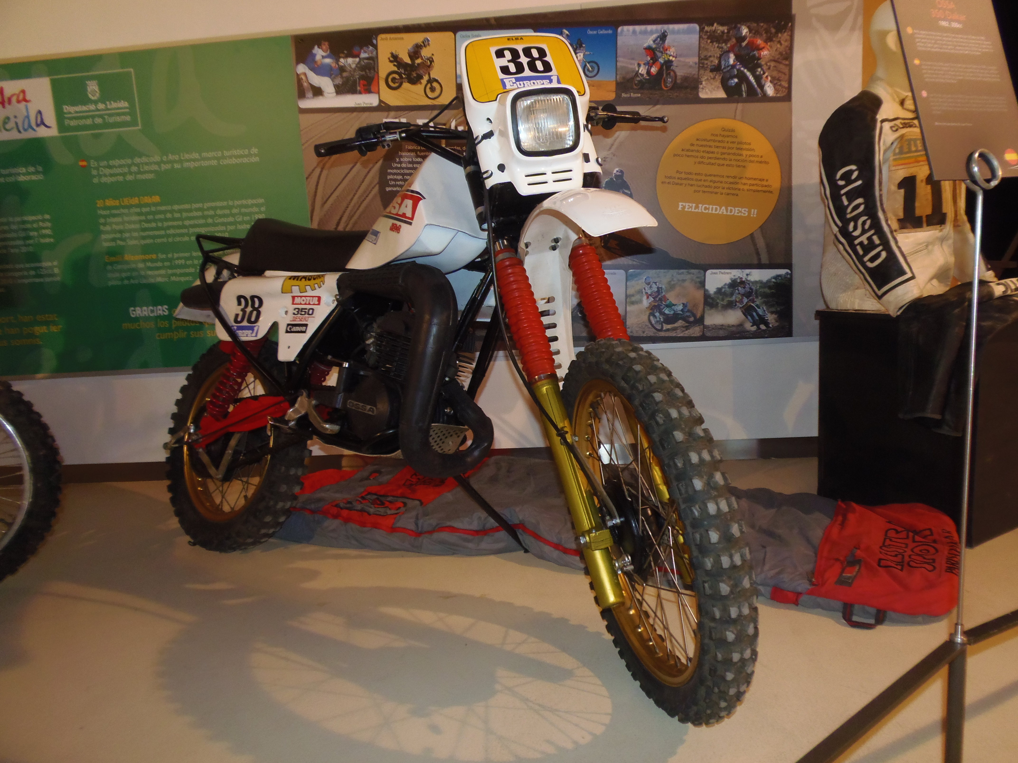 Joan Porcar's OSSA 350 Desert (1982). On this bike, Porcar participted at 1982 Dakar Rally. He did not finished the race.